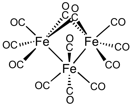 revised structure of Fe3(CO)12 showing only 2 Fe-Fe bonds, consistent with contemp bonding theory